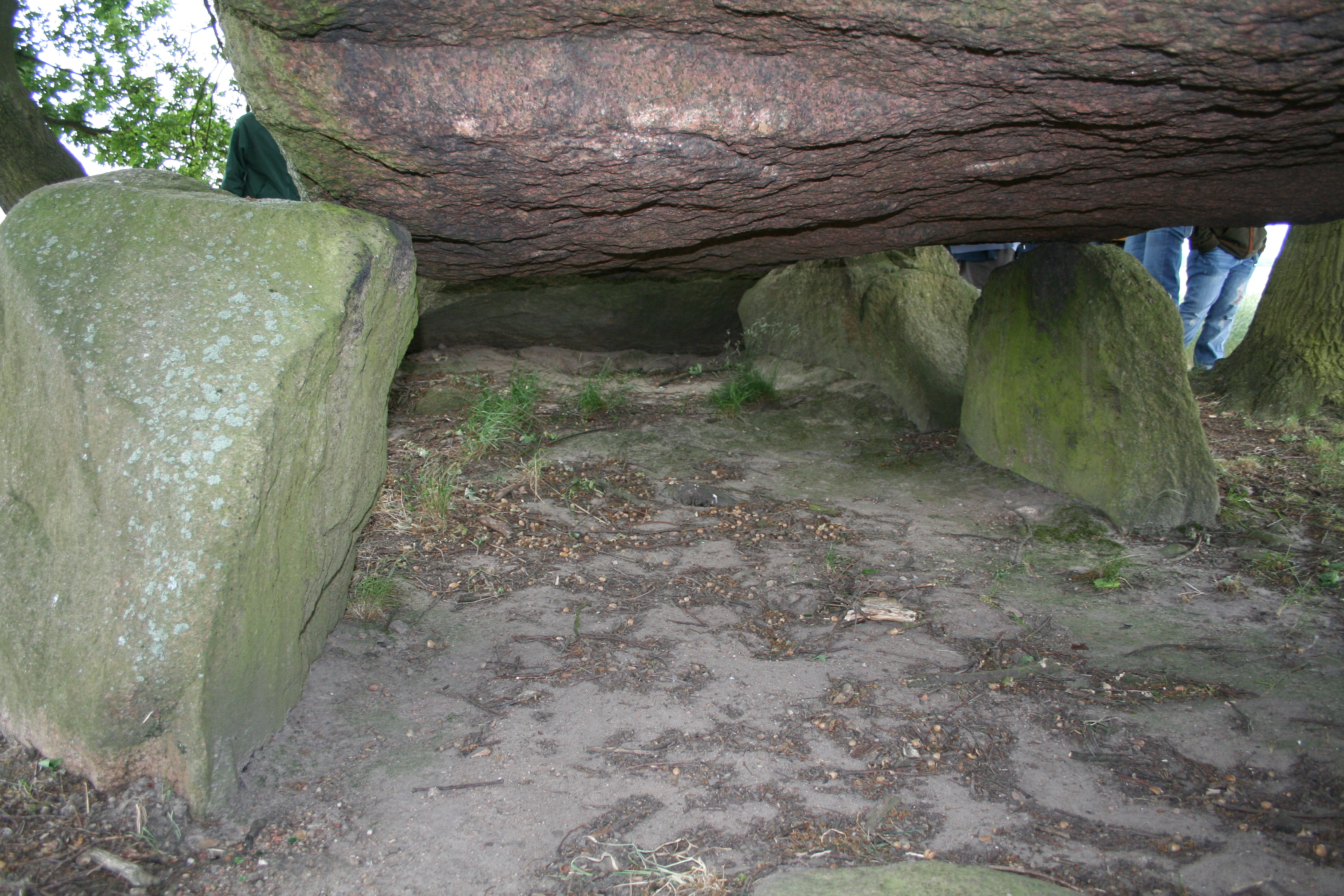 Dolmen in Stöckheim (Rohrberg), Altmark